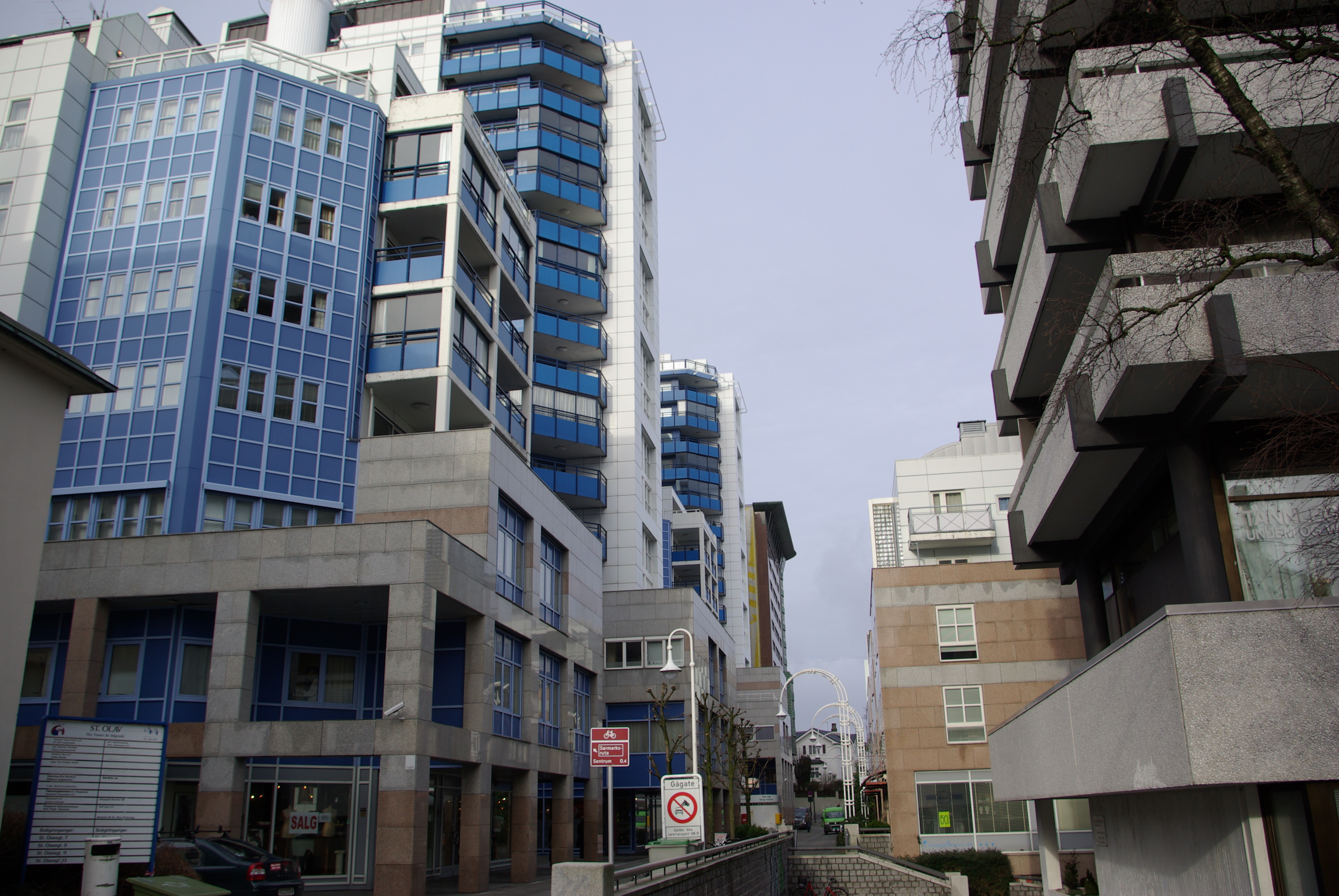 The first two highrises on the left side are St Olav-sameiet blokk A, and St Olav-sameiet blokk C. The brown building far away, left side, is the Clarion Hotel.